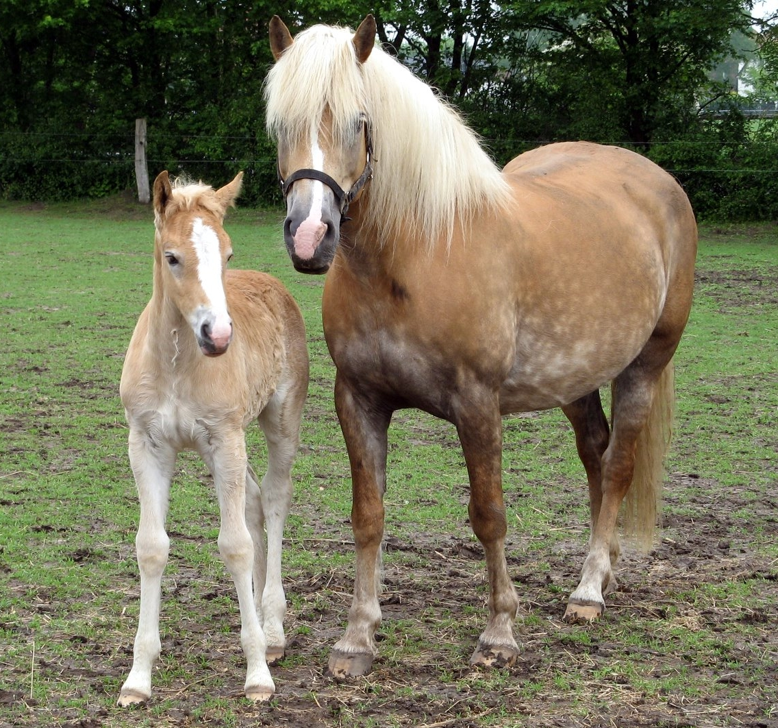 Haflinger mare Westfalensonne with her foal Almfee living at "Haflinger Westfalenfleiß Kinderhaus"